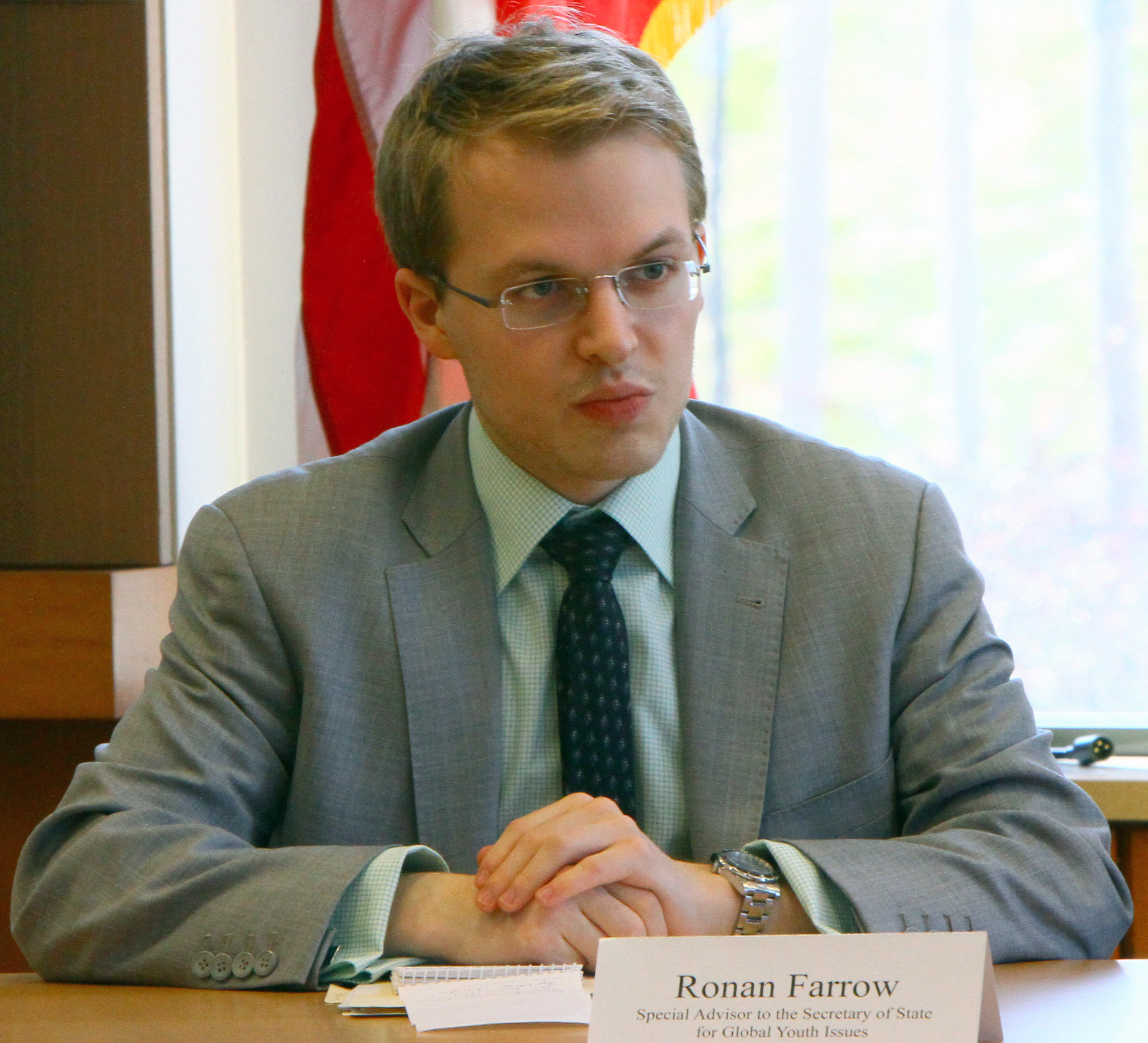 Ronan Farrow visits Kyiv